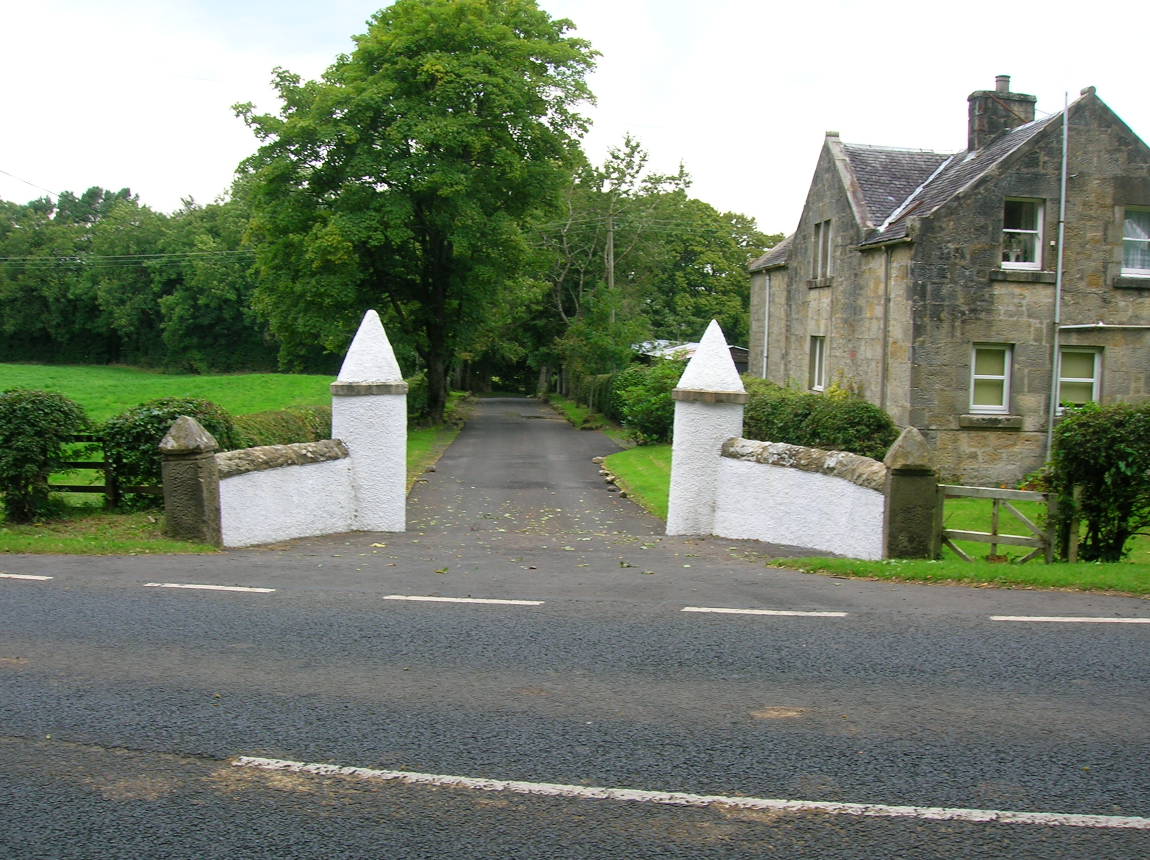 Monkredding entrance and lodge, Kilwinning, North Ayrshire, Scotland